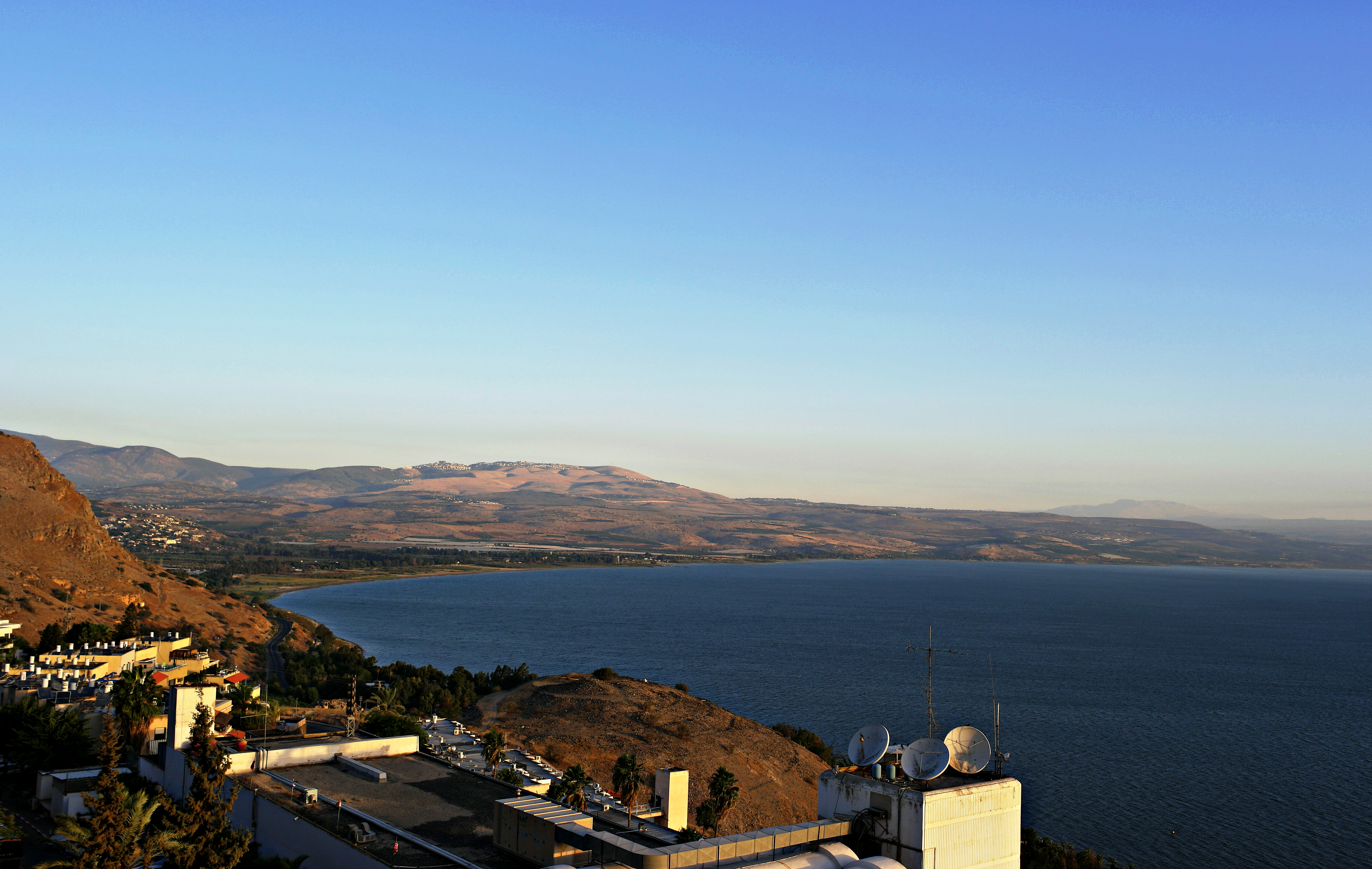 Sea of Galilee region photo taken from hotel